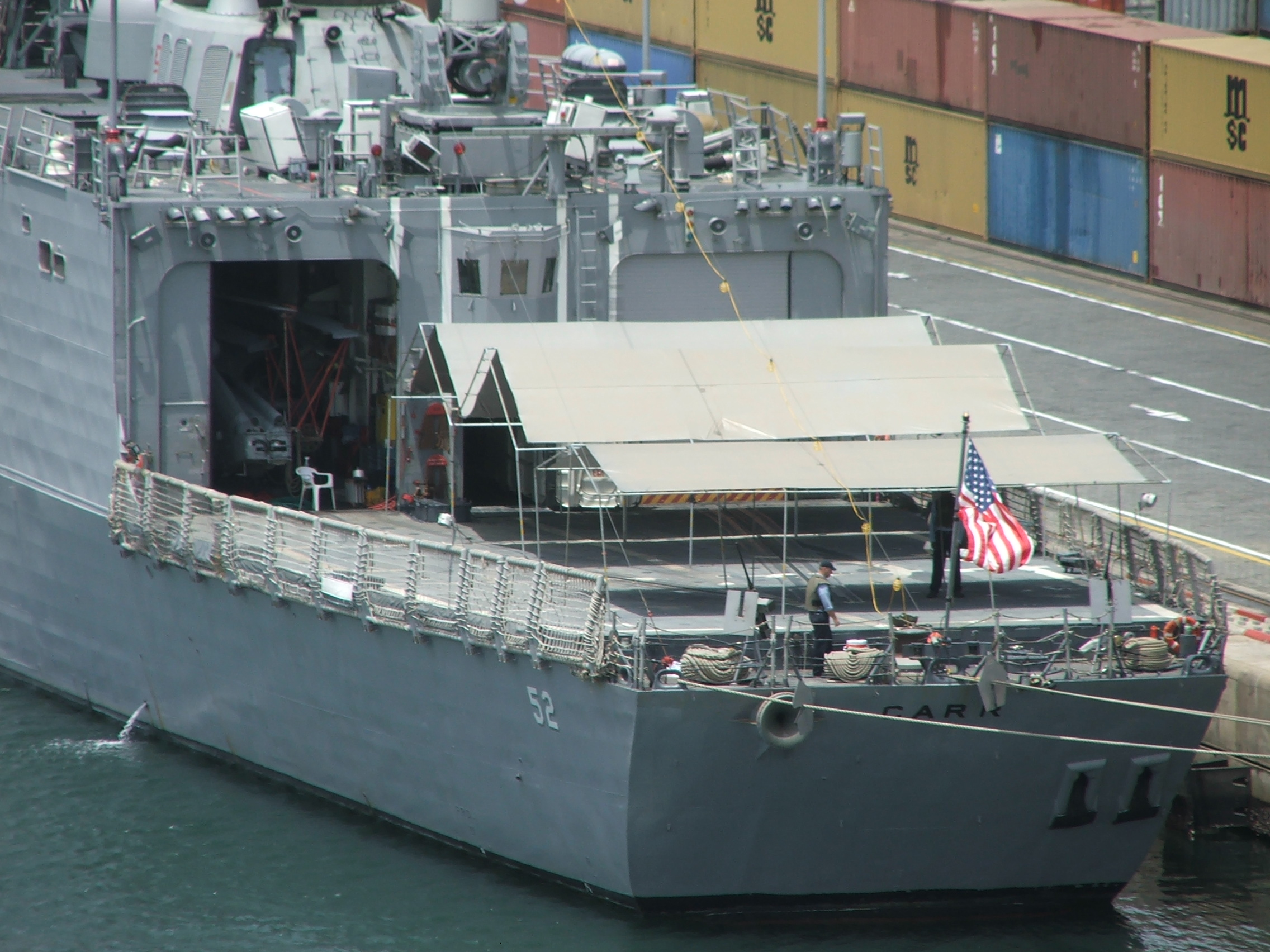 USS Carr, Stern Detail